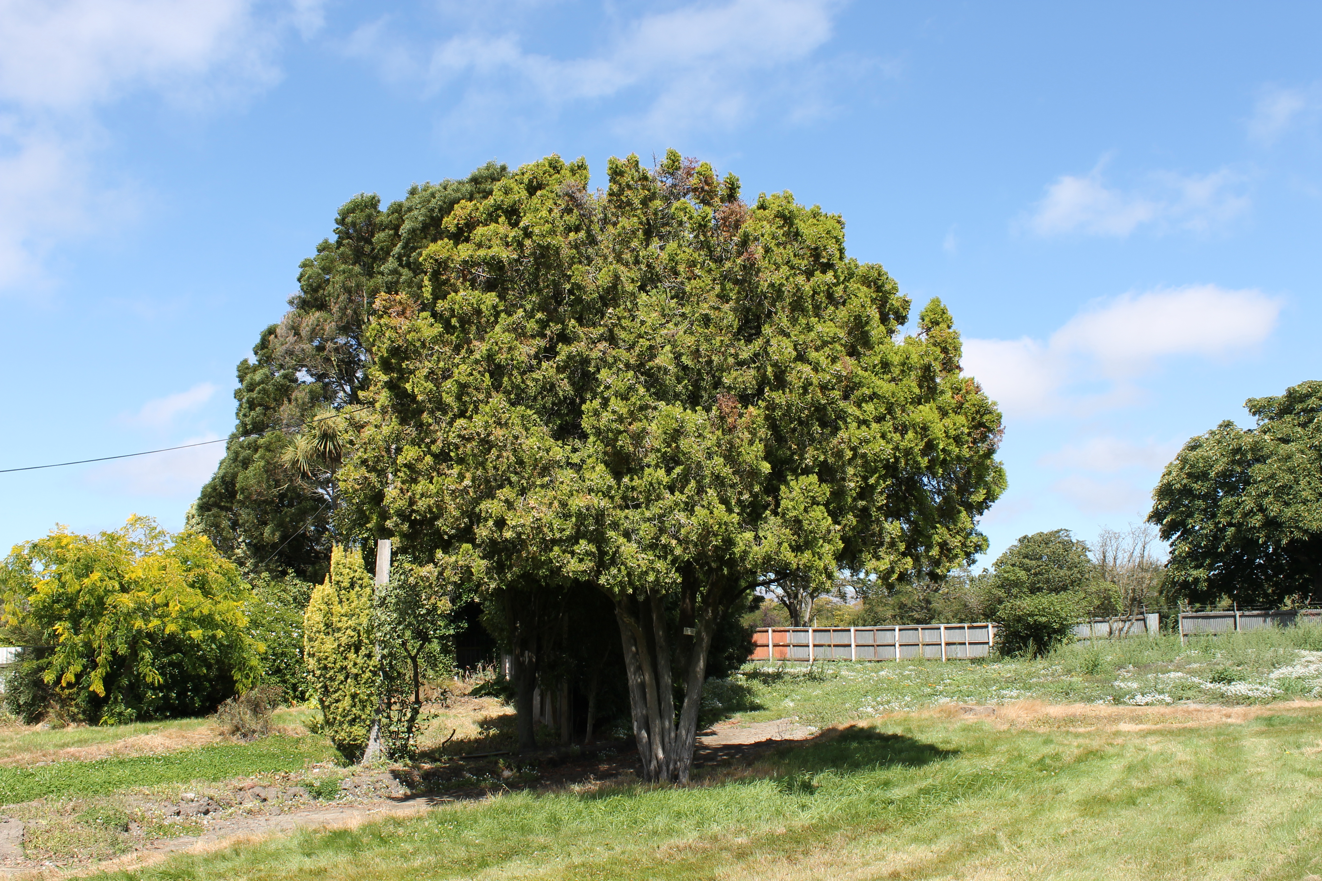 Platycladus orientalis in Avonside, New Zealand